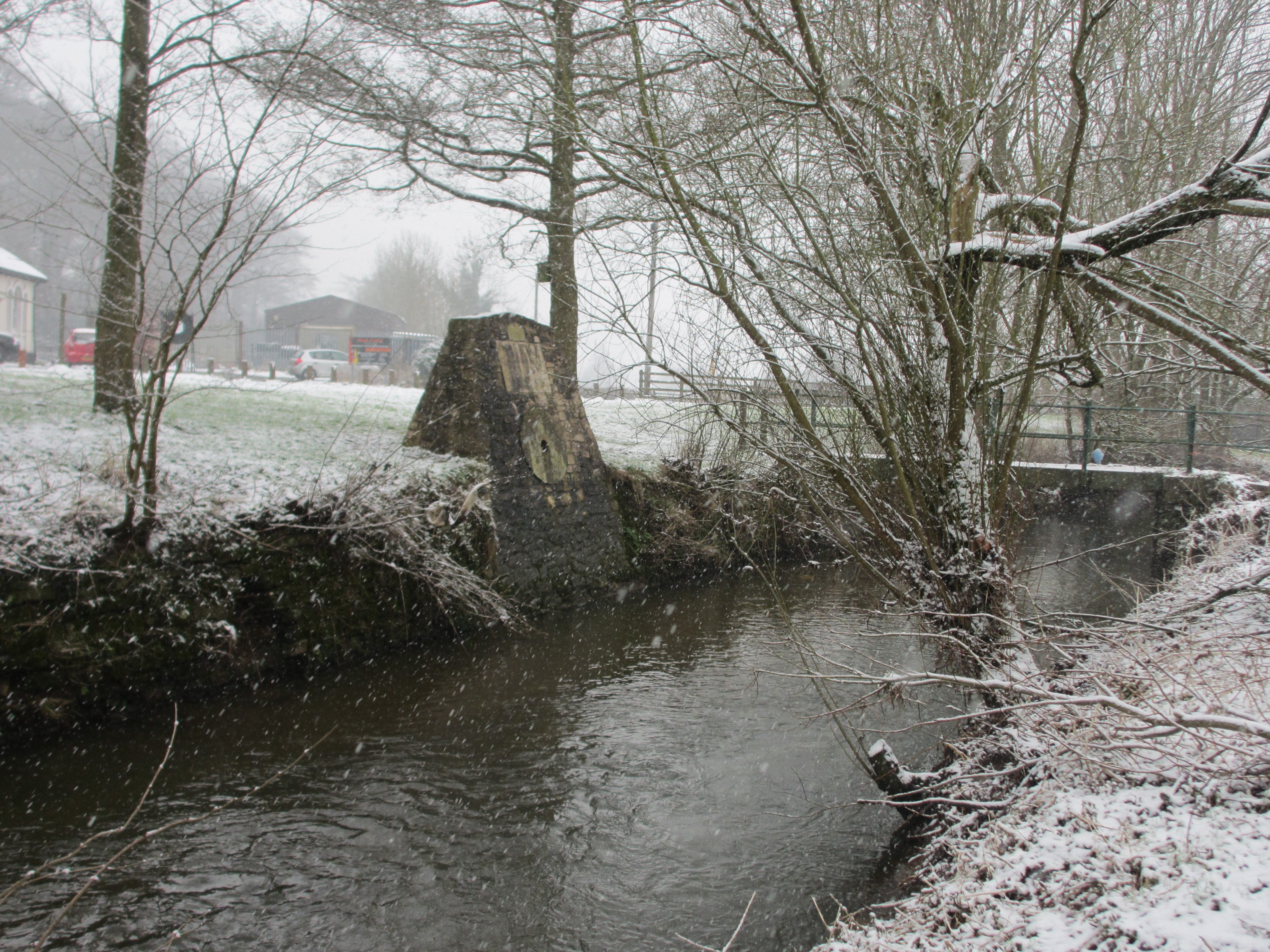 Down'Ards purpose-built goal at Clifton Mill down stream from the plinth at Shawcroft on Ash Wednesday 2013